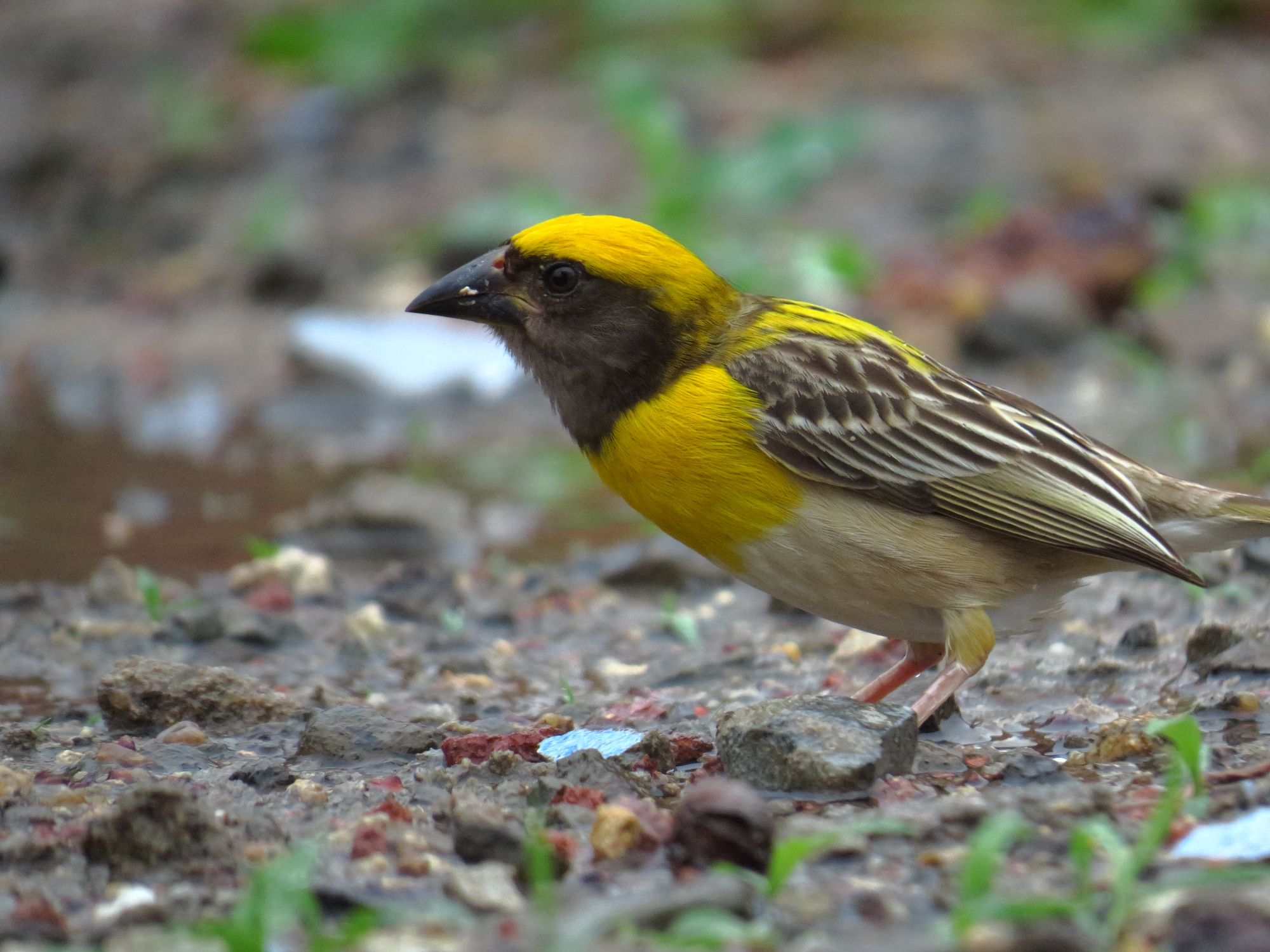 This male is showing its bright yellow breeding plumage.